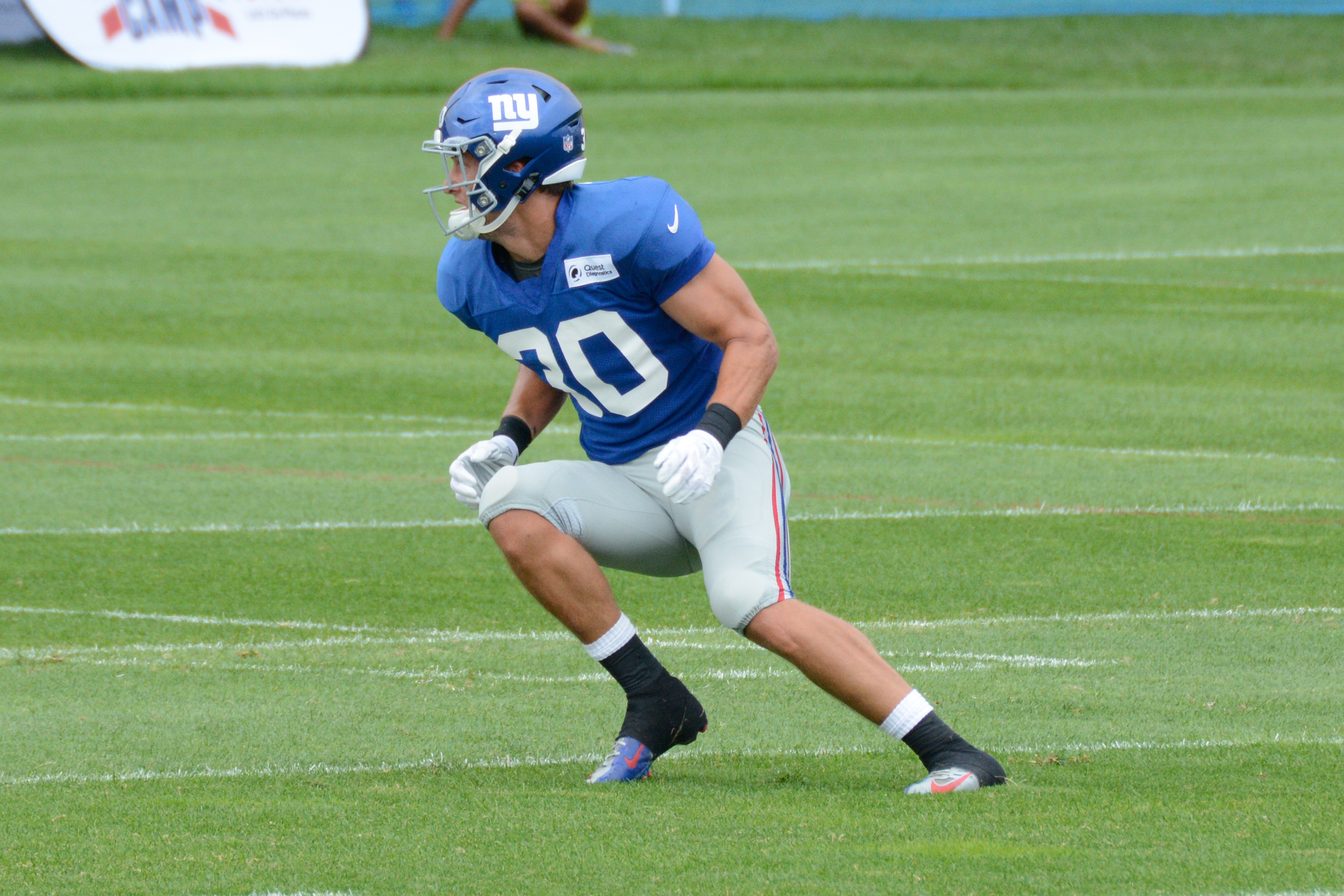 New York Giants training camp